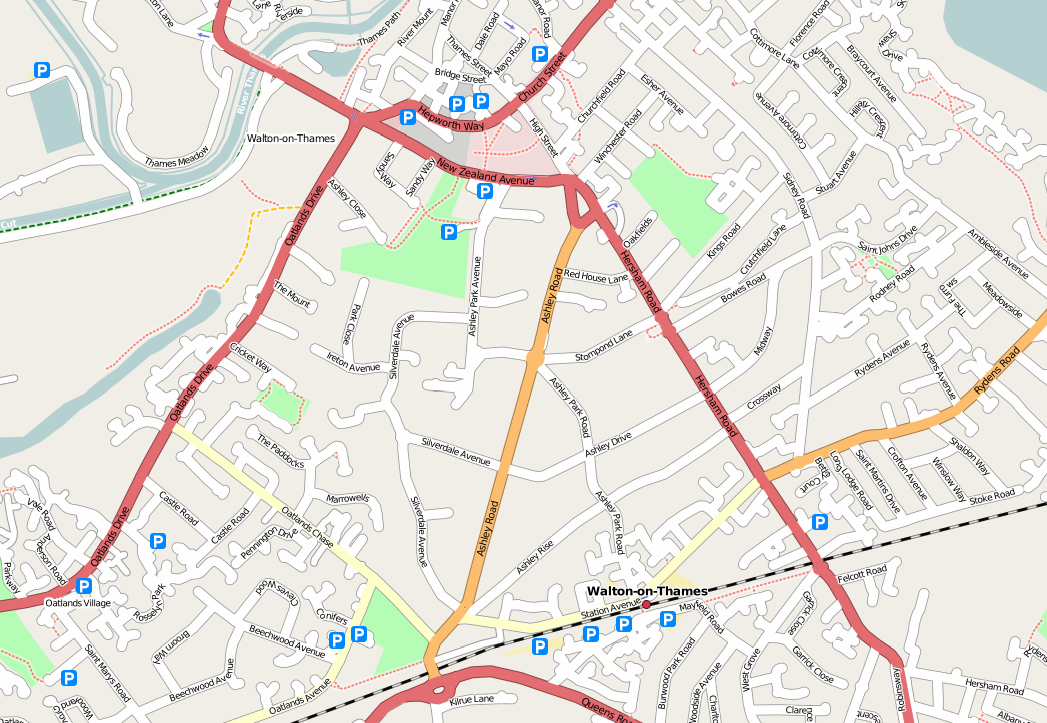 This map may be incomplete, and may contain errors. Don't rely solely on it for navigation.